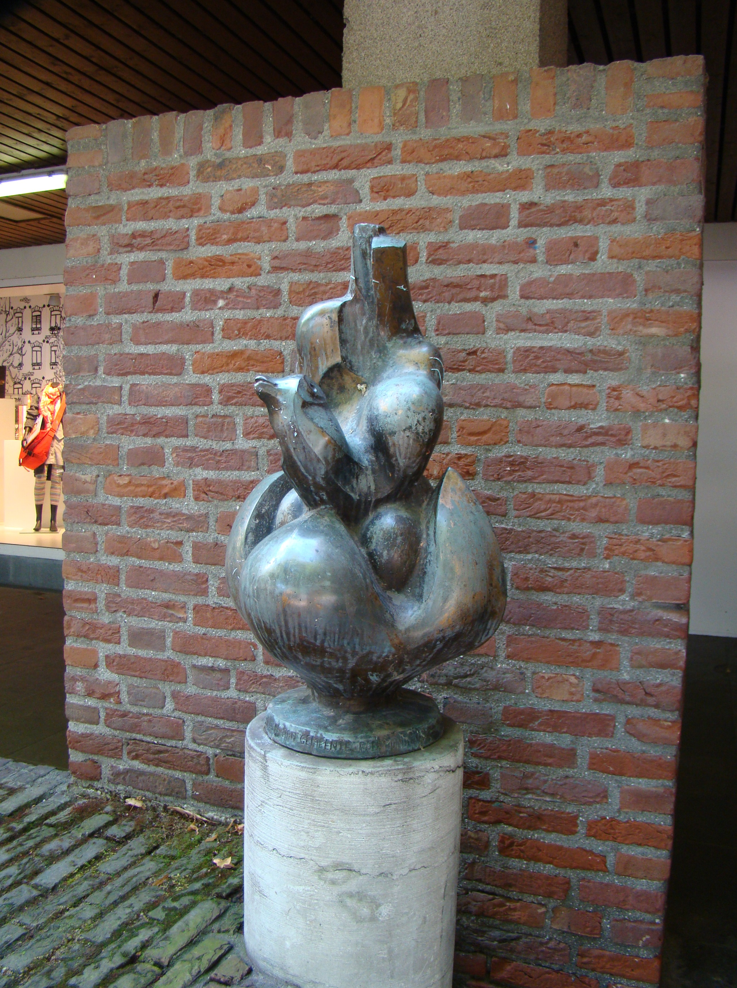 Artwork Phoenix by Jean Houben in Roermond (Netherlands)